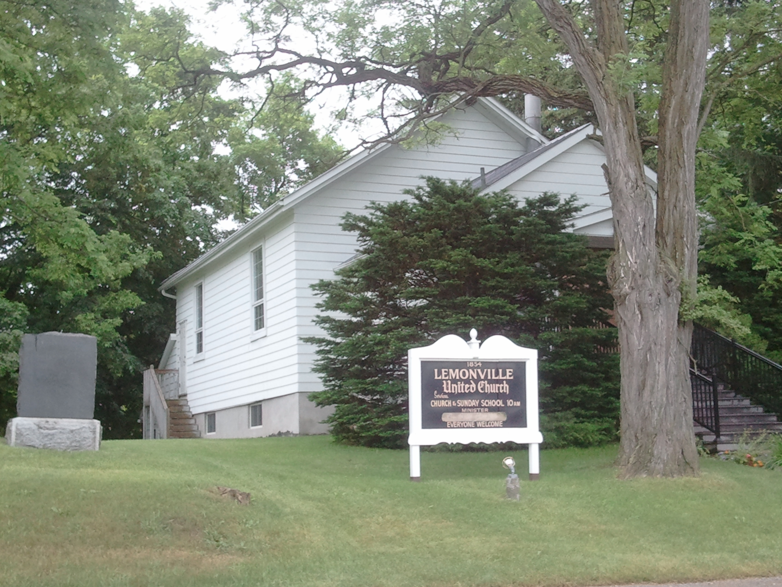 Lemonville United Church, McCowen Rd. (east side), Lemonville, Ontario, taken June 2011